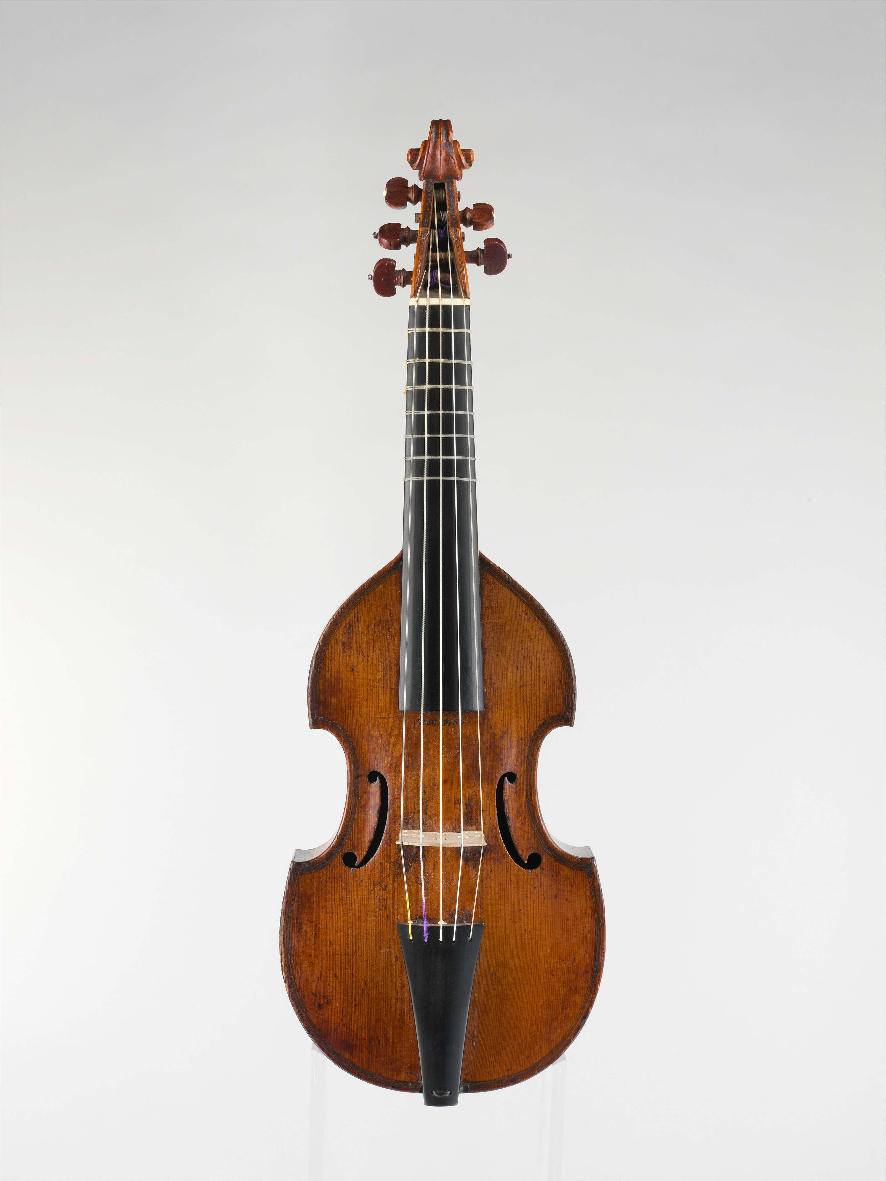 French; Pardessus de Viole; Chordophone-Lute-bowed-fretted